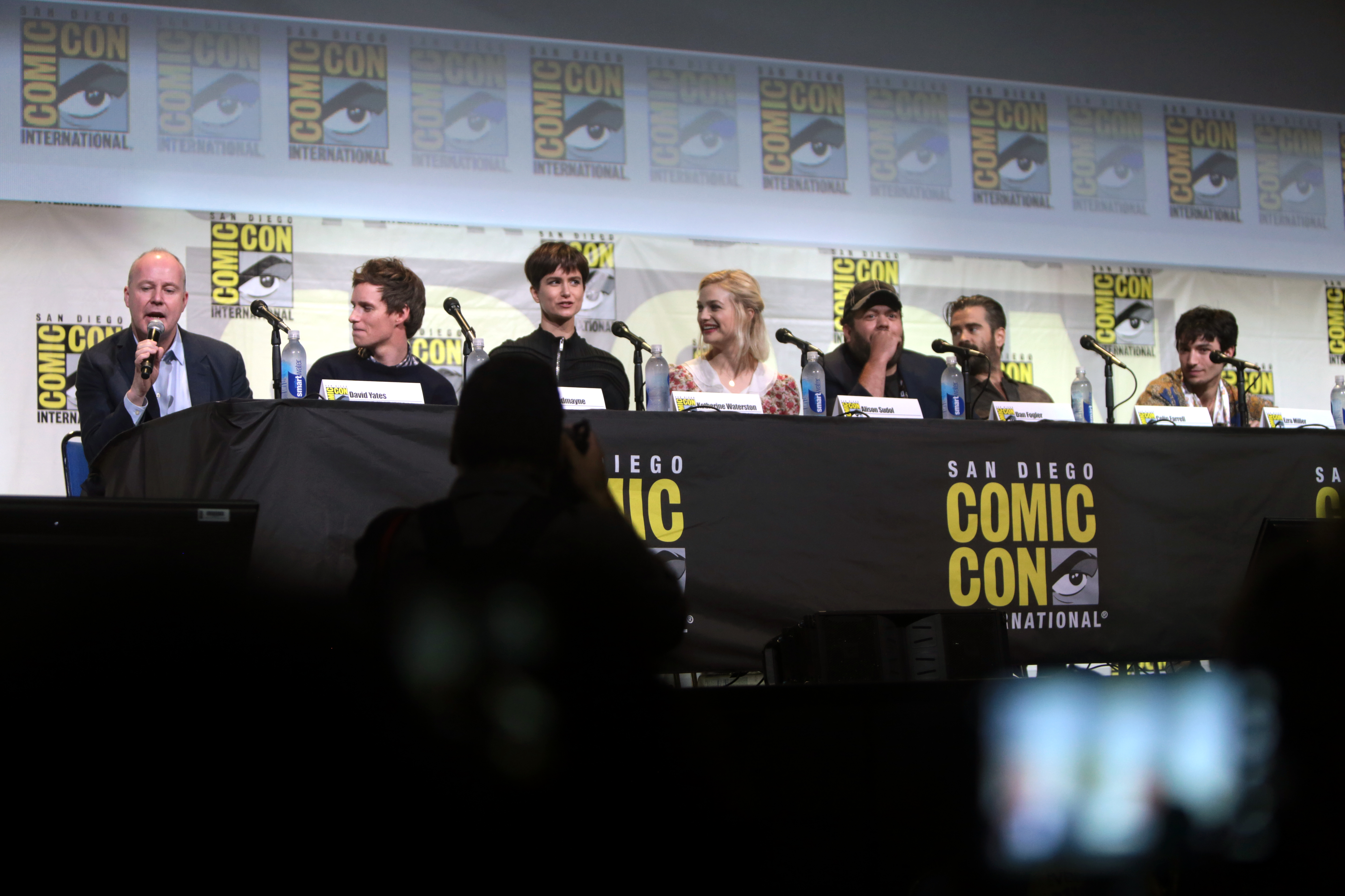 David Yates, Eddie Redmayne, Katherine Waterston, Alison Sudol, Dan Fogler, Colin Farrell and Ezra Miller speaking at the 2016 San Diego Comic Con International, for "Fantastic Beasts and Where to Find Them", at the San Diego Convention Center in San Diego, California.